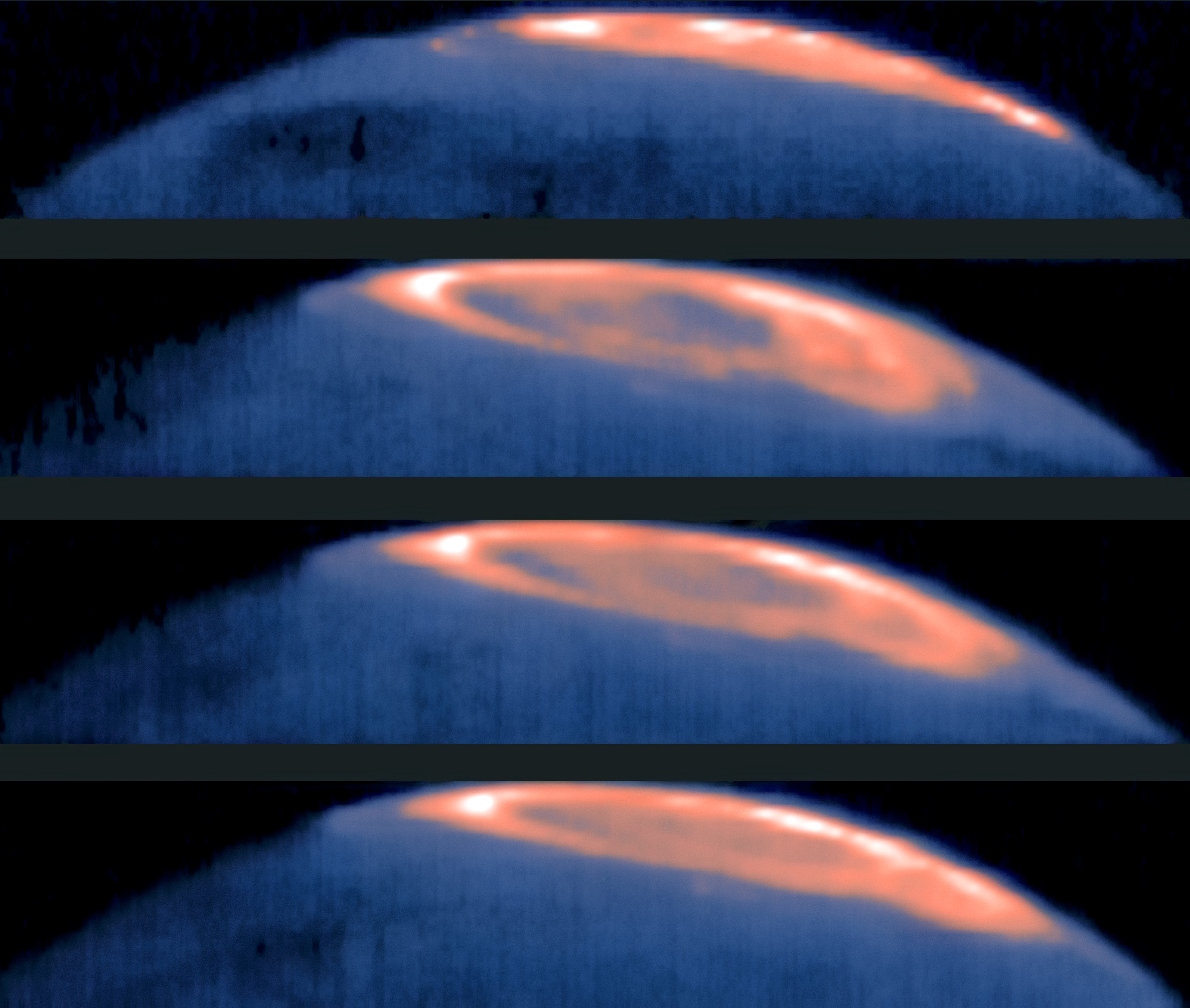 So big it could engulf several Earths, Jupiter’s Great Red Spot is a gigantic storm that has been raging for centuries with winds blasting at over 600 kilometres per hour. But it has a rival: astronomers have discovered that Jupiter has a second Great Spot, this time a cold one. In the polar regions of the planet, astronomers using the CRIRES instrument on ESO's Very Large Telescope, along with other facilities, have found a dark spot in the upper atmosphere (below the aurora to the left) about 200 °C cooler than its surroundings. Aptly nicknamed the “Great Cold Spot”, this intriguing feature is comparable in size to the Great Red Spot — 24 000 km across and 12 000 km tall. But data taken over 15 years show that the Great Cold Spot is much more volatile than its slowly-changing cousin. It changes dramatically in shape and size over days and weeks — but never disappears, and always stays roughly in the same location. The Great Cold Spot is thought to be caused by the planet’s powerful aurorae, which drive energy into the atmosphere in the form of heat that flows around the planet. This creates a cooler region in the upper atmosphere, making the Great Cold Spot the first weather system ever observed to be generated by aurorae.